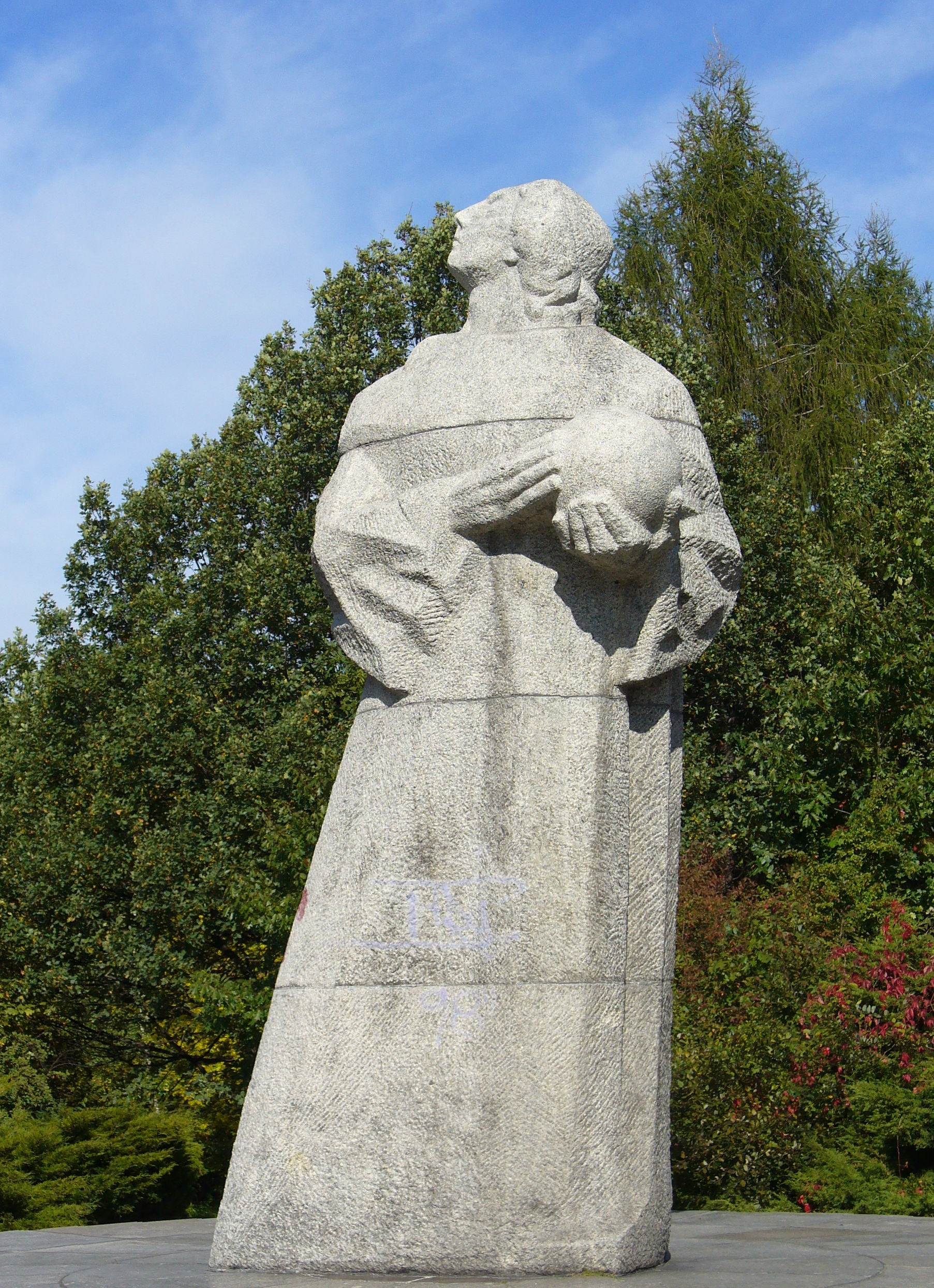 Copernicus monument in Chorzów (Upper Silesia).